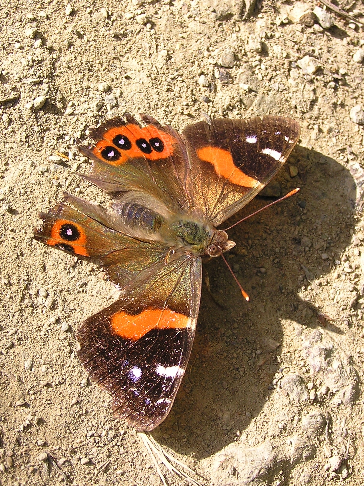 NZ Red Admiral showing an example of the extreme wear and tear to the wing tips that occurs over the long life of these butterflies (this specimen was still able to fly, seemingly without difficulty). Wellington, New Zealand Māori: Kahukura